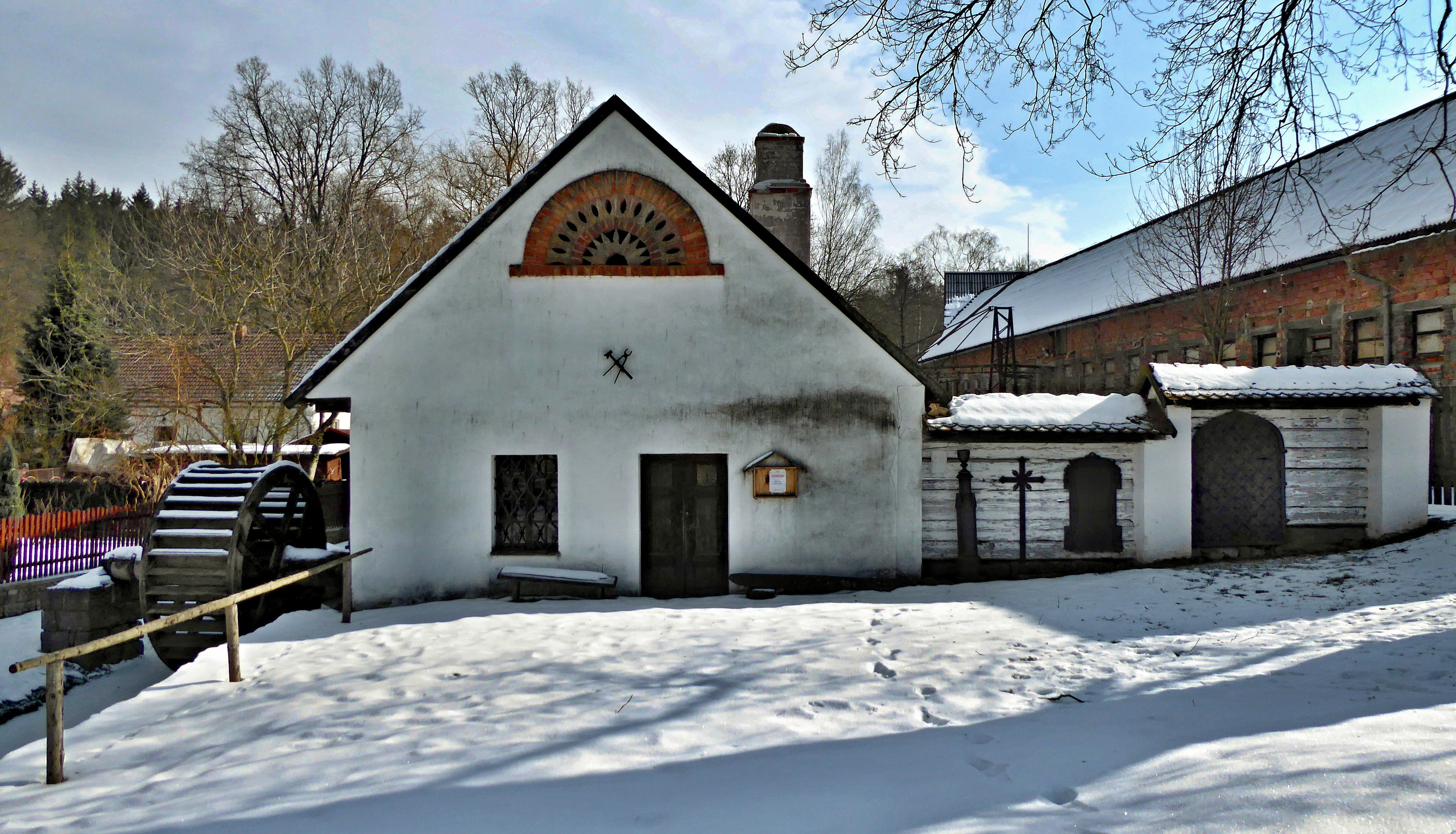 Water hammer and mill (restoreds in the 20th century) in the hamlet of Svobodné Hamry, the part village of Vysočina. A water wheel on the so-called lower water supplied by the Chrudimka river, to the 17th century the river with name Kamenice. In the 15th century an so-called the hammer was built for the production of iron in the original hamlet called "Hamr nad Kamenicí", since 1769 with the name "Svobodné Hamry". The water works worked until the end of the 17th century, then a forging the iron with two water wheels. Since the eighteenth century, they built other water structures, including a mill and a saw, they ceased to exist in the early 20th century. Cultural monument of the hamlet monument zone with name Svobodné Hamry, part of the open-air museum Veselý Kopec. Historical monument in the Iron Mountains on the green tourist route of the Czech Tourists Club (part: Veselý Kopec - Dřevíkov - Svobodné Hamry). Locality in the Protected Landscape Area Žďár Hills. Photo location: Czechia, Pardubice Region, municipality Vysočina, small hamlet Svobodné Hamry, Kameničská Highlands. Source of information: Merry Hill (Czech name: Veselý Kopec), official web presentation of the Open-air Museum Vysočina (formerly named Set of Folk Buildings Vysočina), see